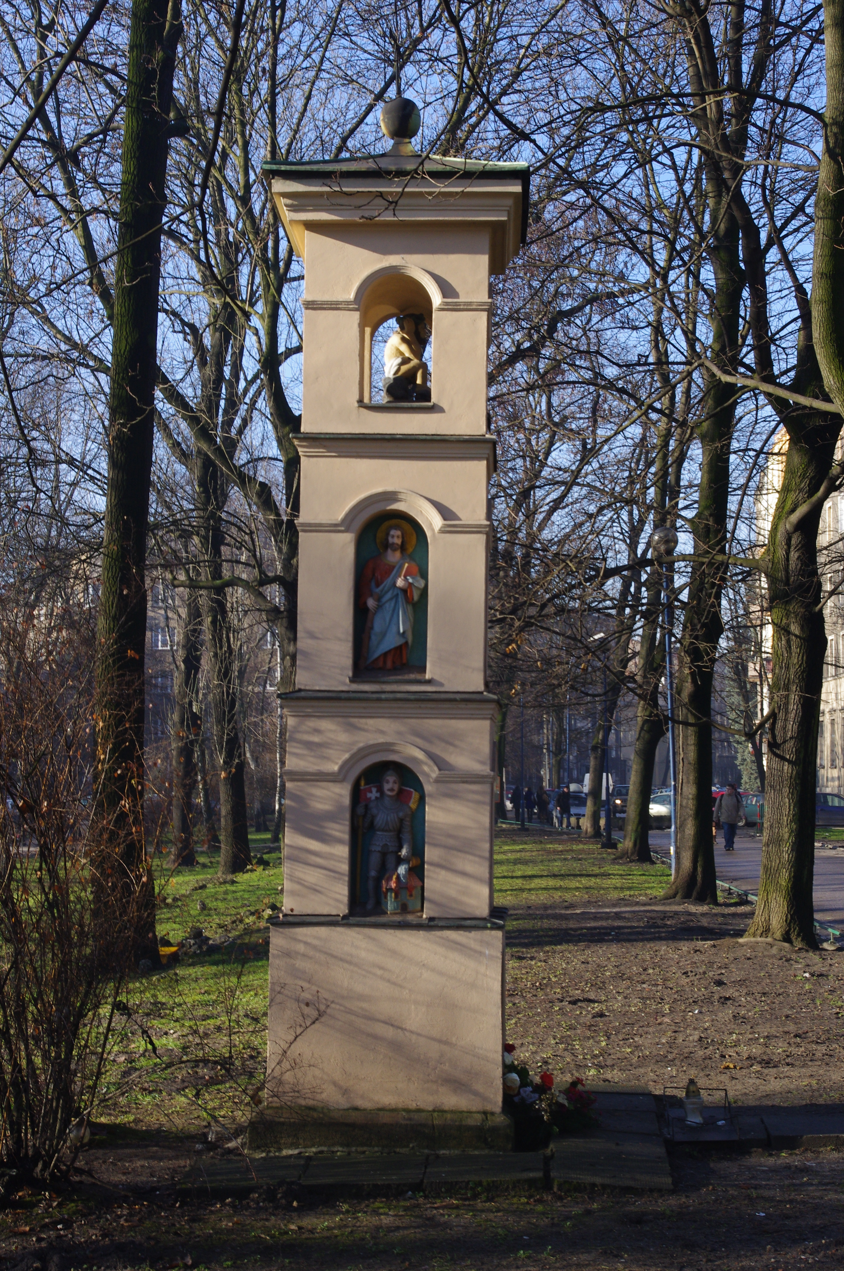 The shrine (Lantern of the Dead) in Krakowski Park (Krakow)